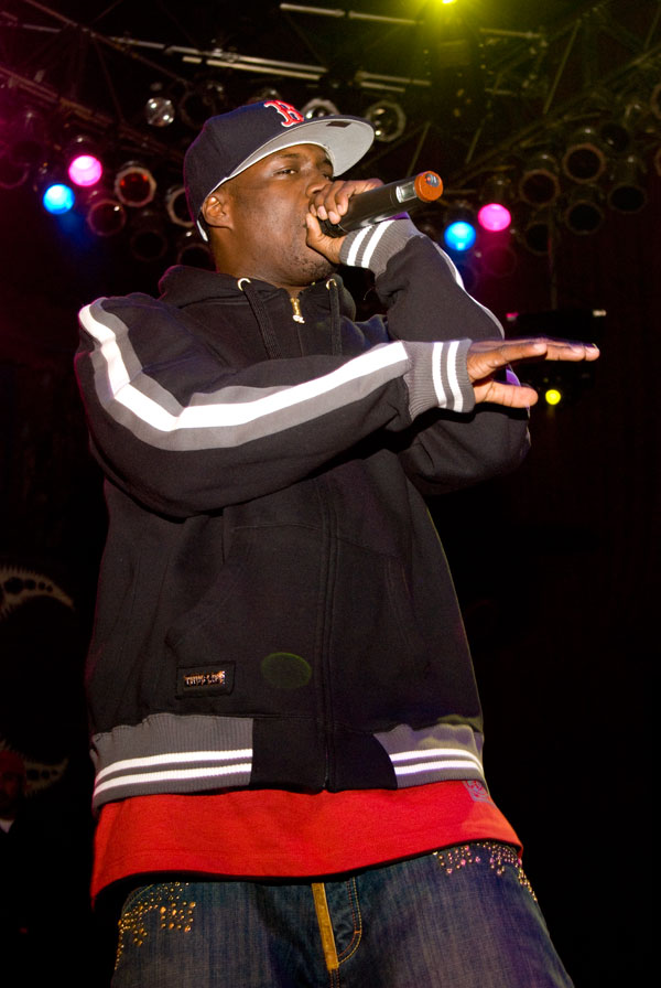 Jay Rock Performs at the House of Blues Chicago